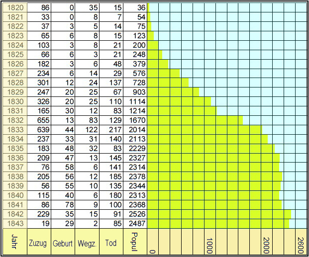 Census-Report of the Liberian Colony 1820-1843.